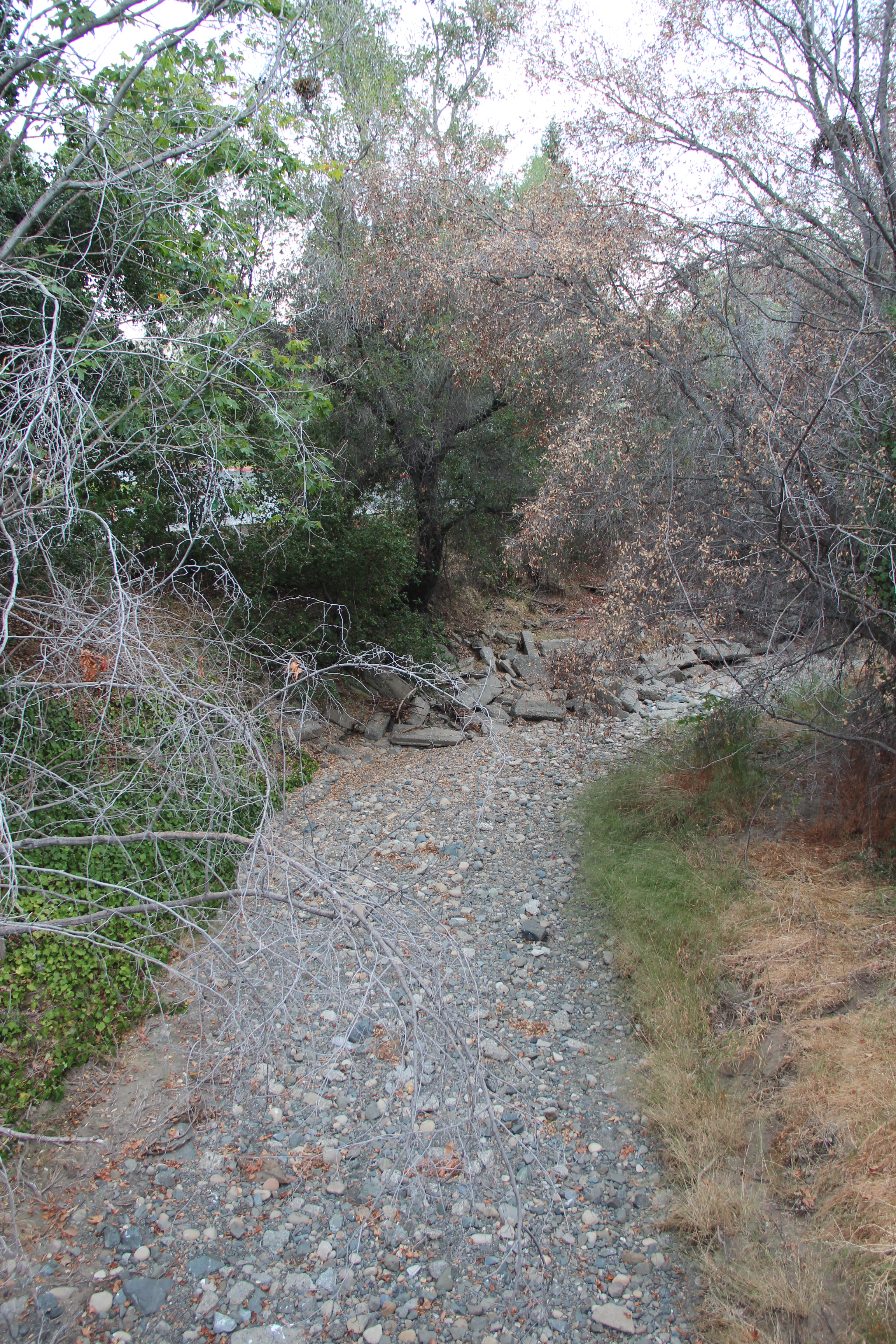 A dried up Saratoga Creek, 2015